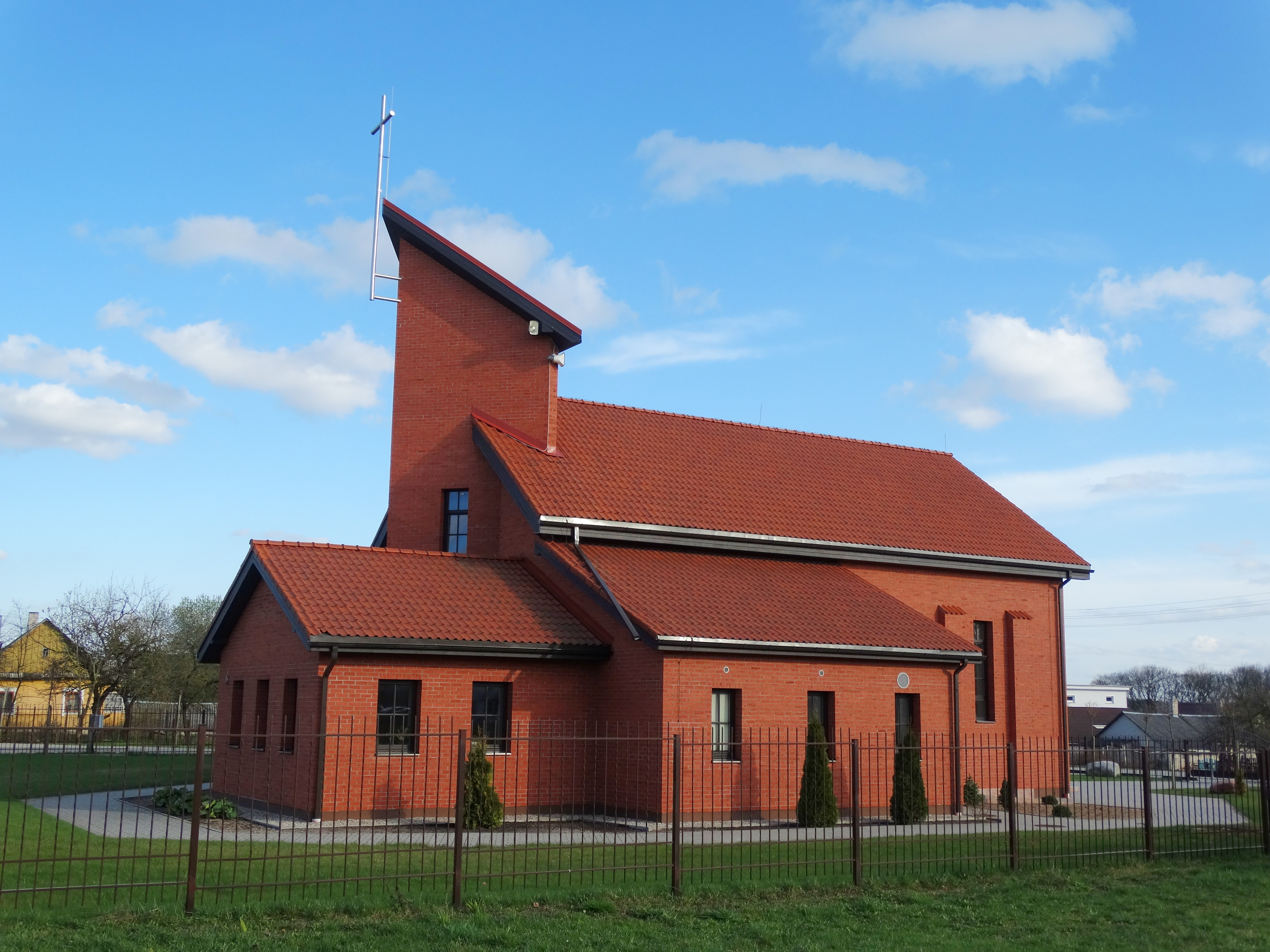 Saint Raphael Kalinowski church, Nemėžis, Vilnius district, Lithuania